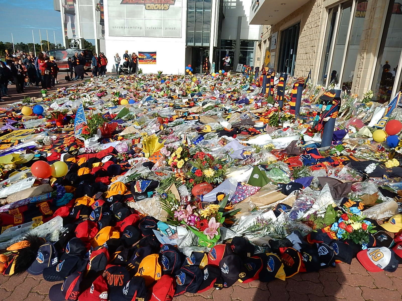 Memorial to Phillip Walsh, coach of the Adelaide Football Club